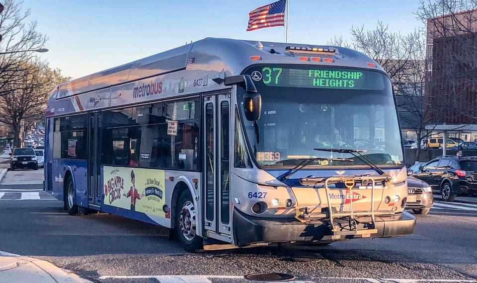 WMATA New Flyer DE40LFA 6427 on the 37 based out of Montgomery division.